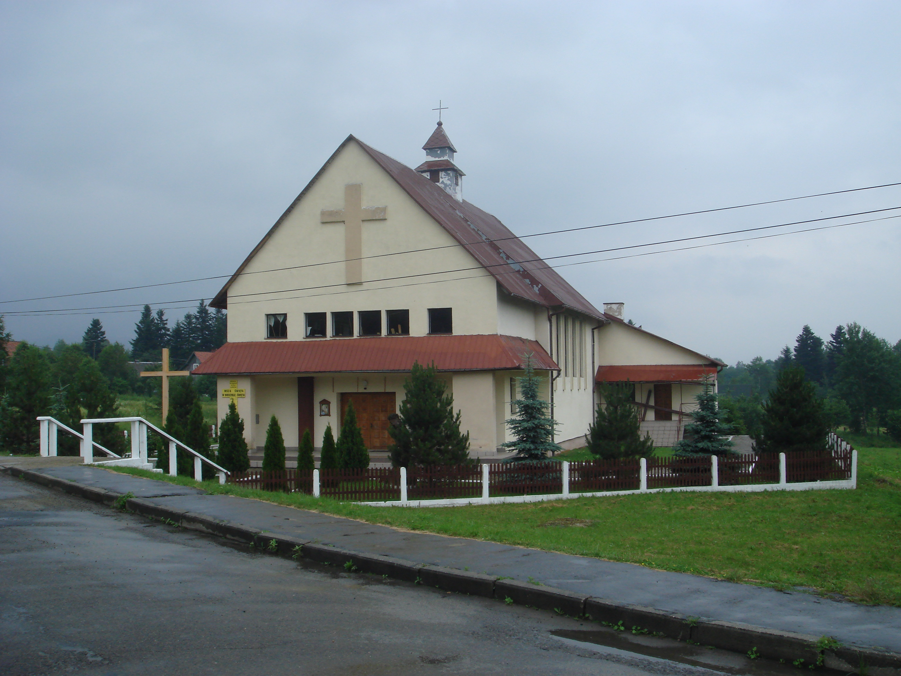 Roman Catholic Church in Nowy Łupków (Subcarpathian Voivodeship, Poland).